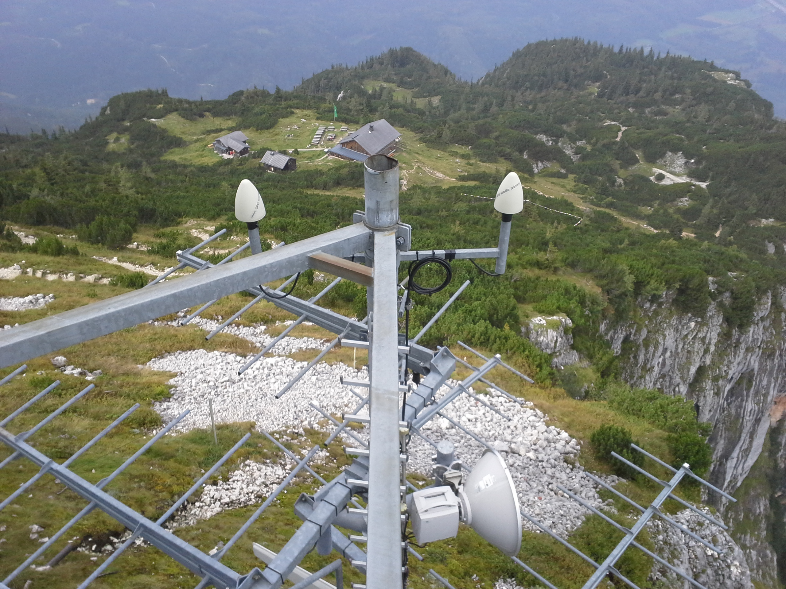 Salzburg ground satellite antenna